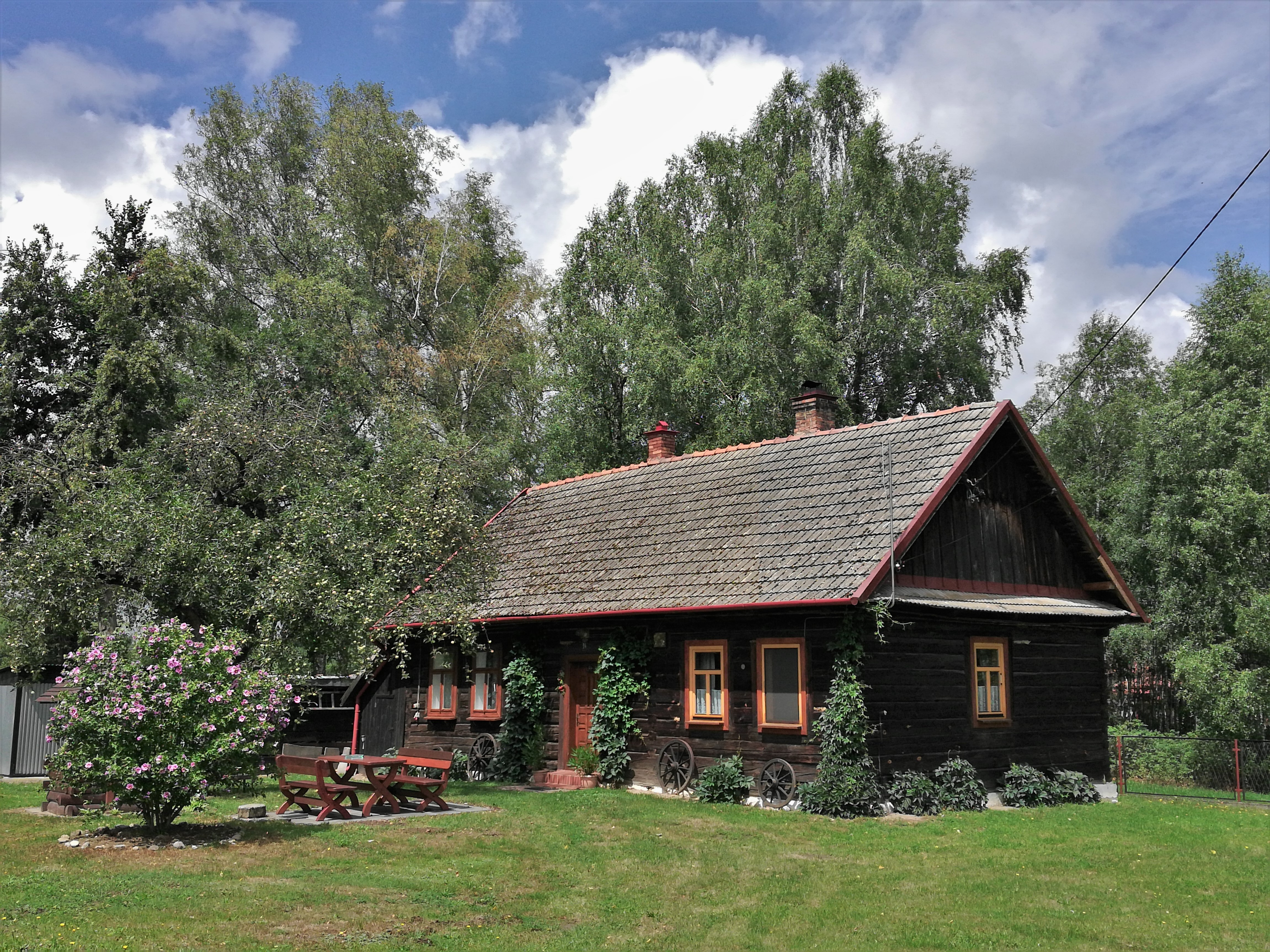 Pogórska Wola - a wooden house in the center of the village, near the church of St. Joseph.